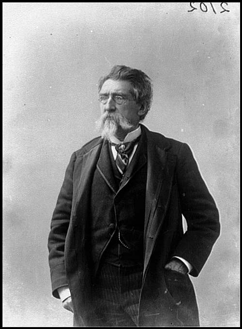 [Photographer Mathew B. Brady, three-quarter length portrait, facing front]. CREATED/PUBLISHED [1889] NOTES Photograph possibly by Levin C. Handy, d. 1932. Reference: American Memory edition timeline. No. 1112 SUBJECTS Brady, Mathew B.,--1823 (ca.)-1896. United States--History--Civil War, 1861-1865 Portrait photographs. Photographic prints. MEDIUM 1 photographic print. CALL NUMBER Item in BIOG FILE - Brady, Mathew REPRODUCTION NUMBER LC-BH827-2102 DLC (b&w glass neg.) REPOSITORY Library of Congress Prints and Photographs Division Washington, D.C. 20540 USA DIGITAL ID (intermediary roll film) cwp 4a40923